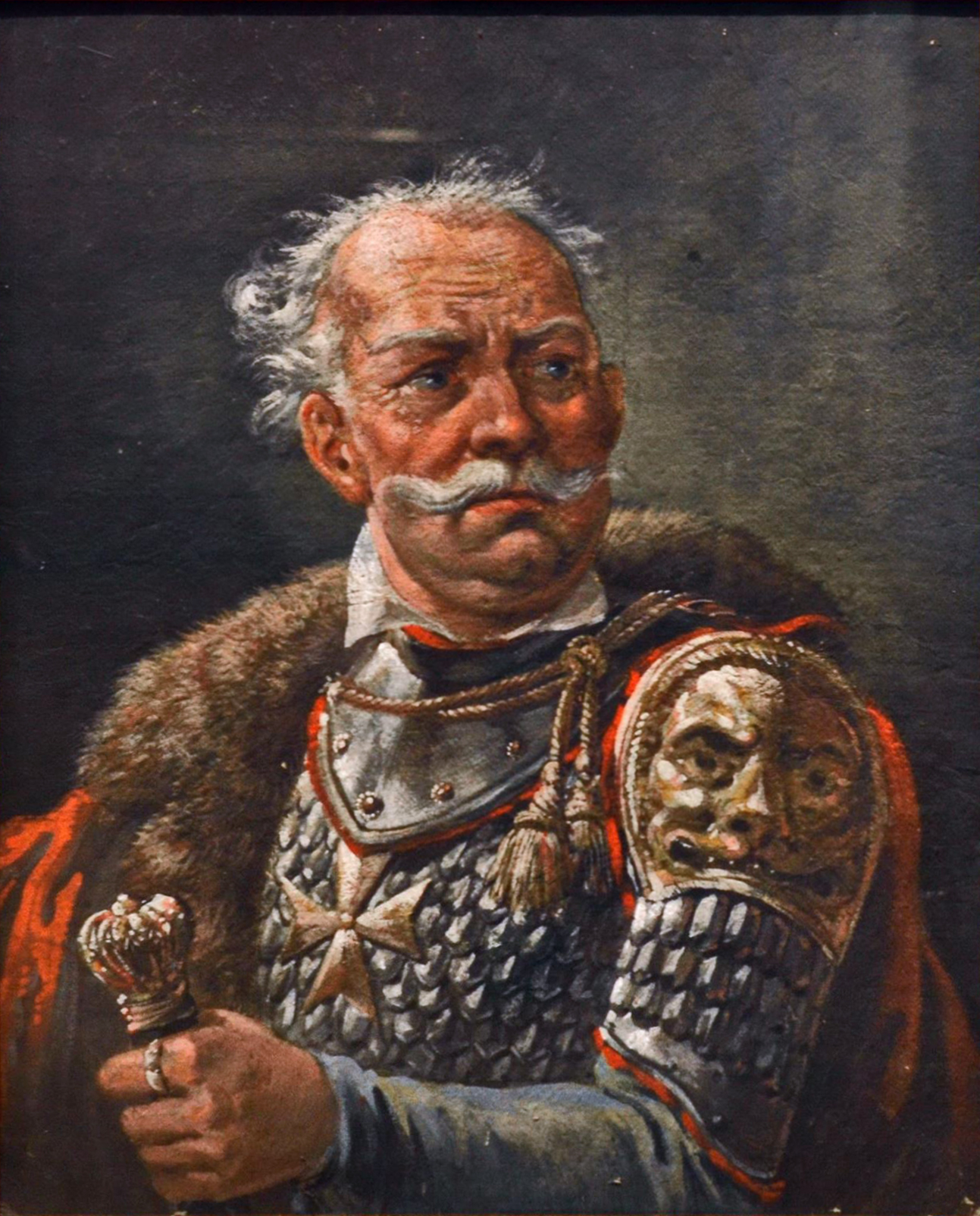 Władysław Wojciech Jelski - starost of Pińsk